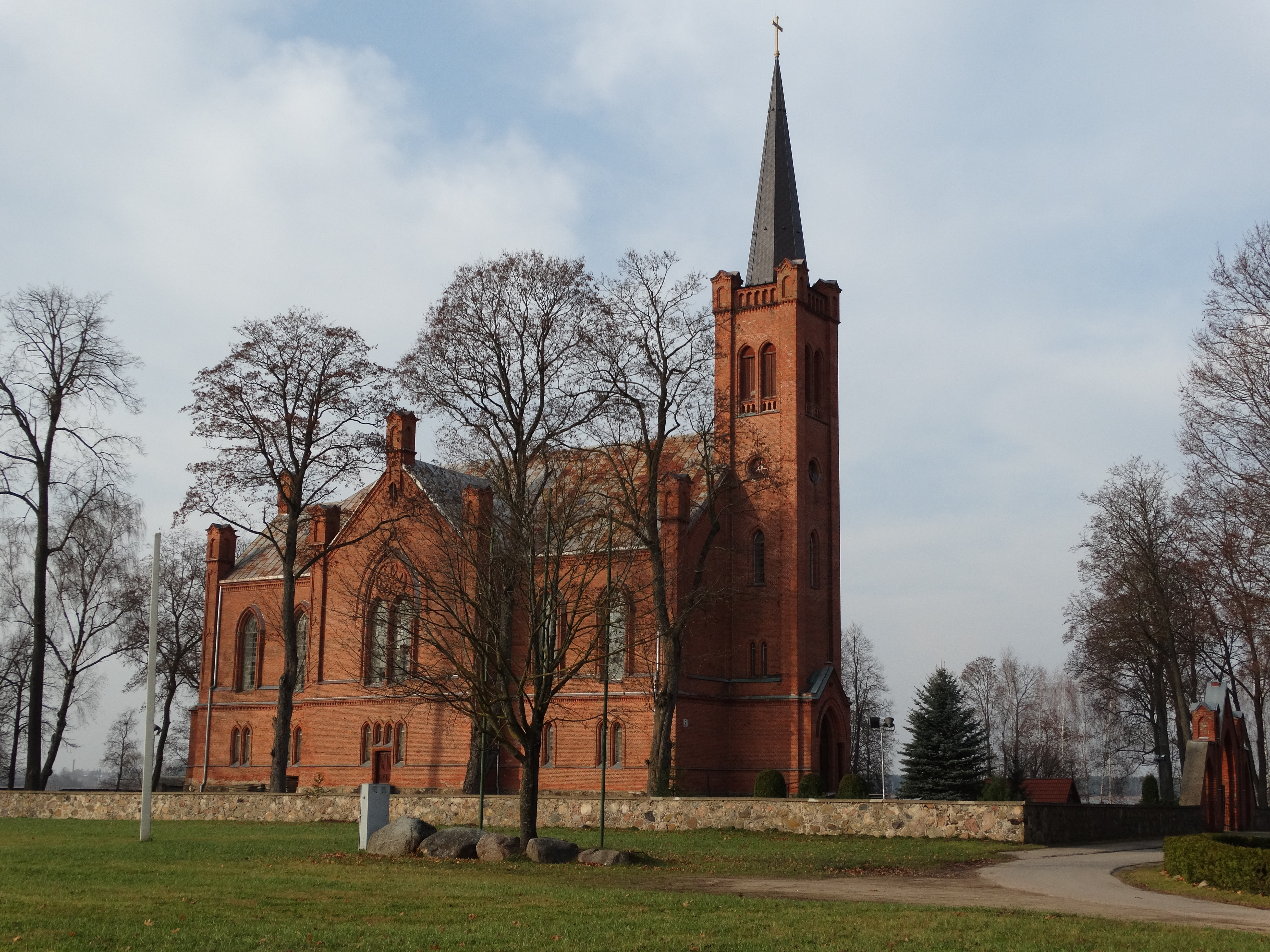 Evangelical Reformed Church in Biržai, Lithuania